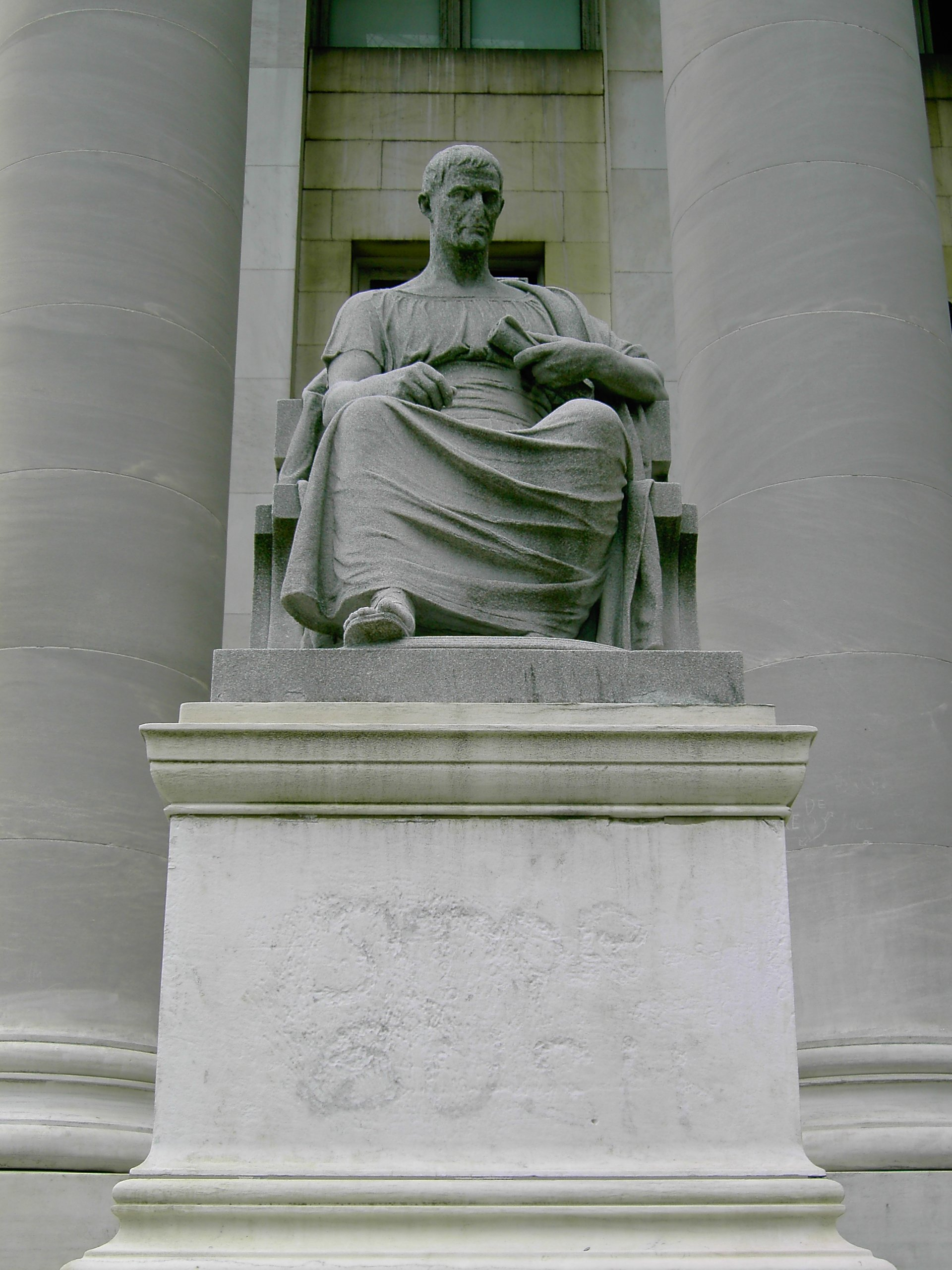 A statue of the Roman orator Cicero that sits behind Woolsey Hall in Yale University. A statue of Cicero's Greek counterpart and predecessor Demosthenes (not shown) is located on the same steps, approx. 50 feet to the northwest.